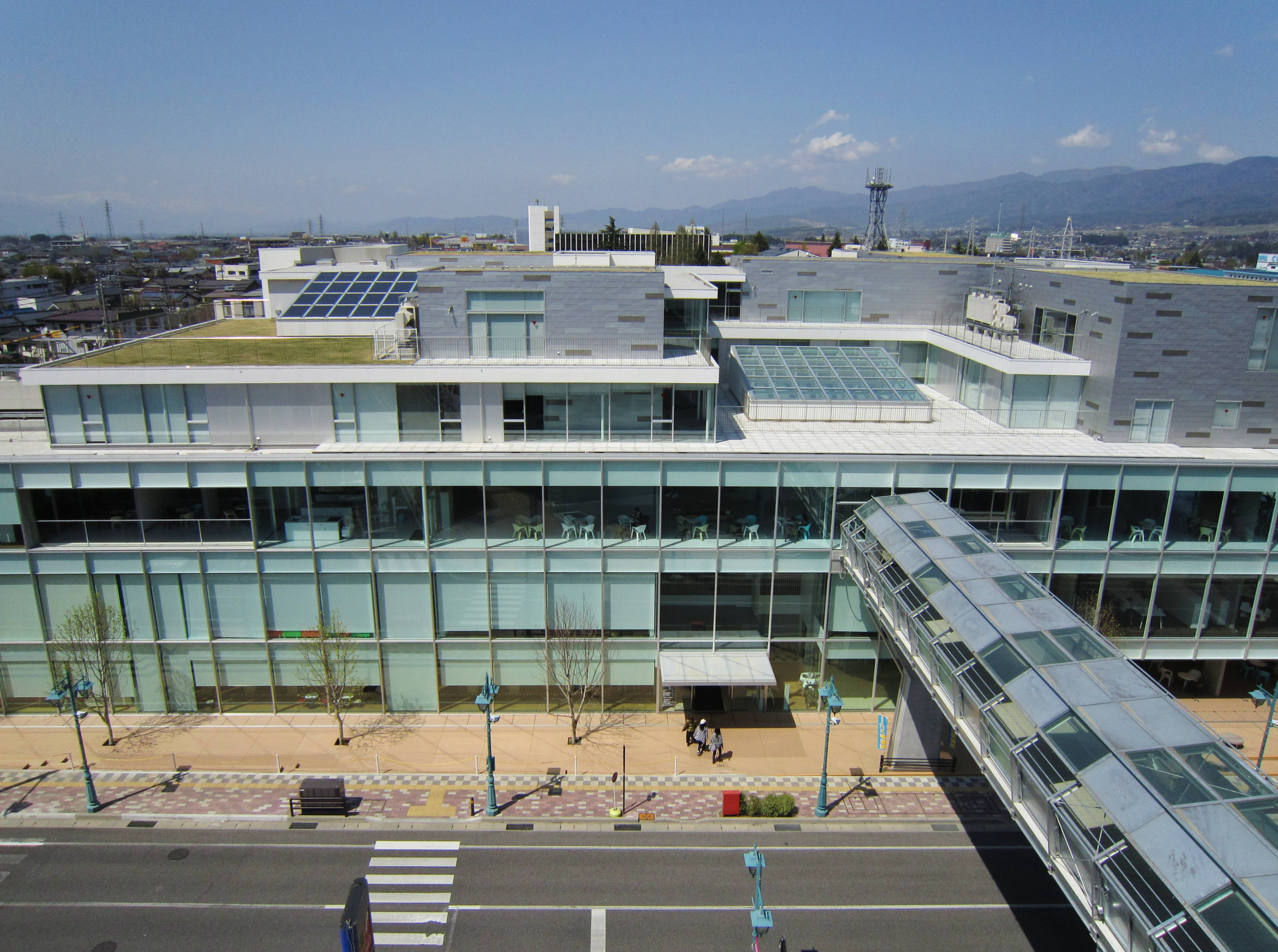 Enpark (Shiojiri, Nagano).